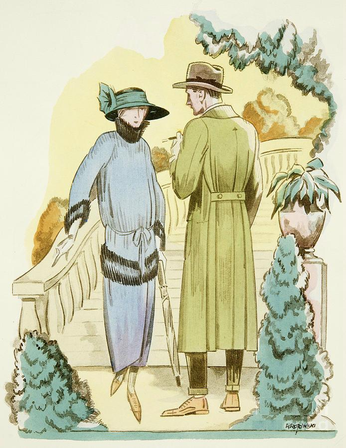 Stephan Krotowski - Rendezvouz, outfit and ulster overcoat by Fabian & Hrich from Styl, pub. 1922